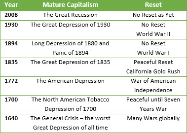 Mature Capitalisms occur every 60-years and are recorded forty-times in records dating back 4,000 years